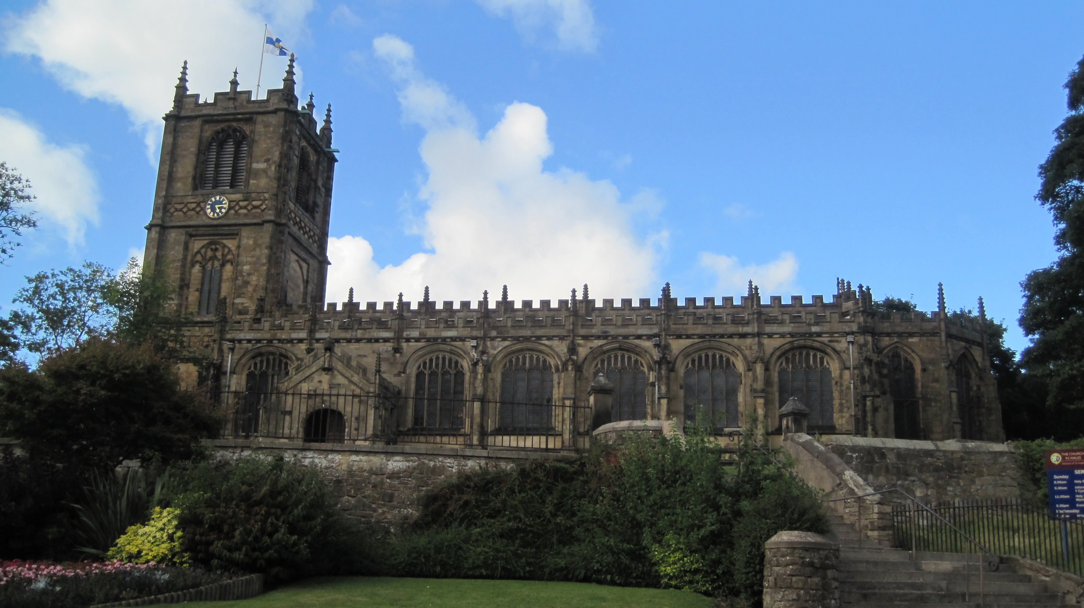 St Mary's Church, Mold, Flintshire, North Wales.